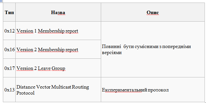 typefile